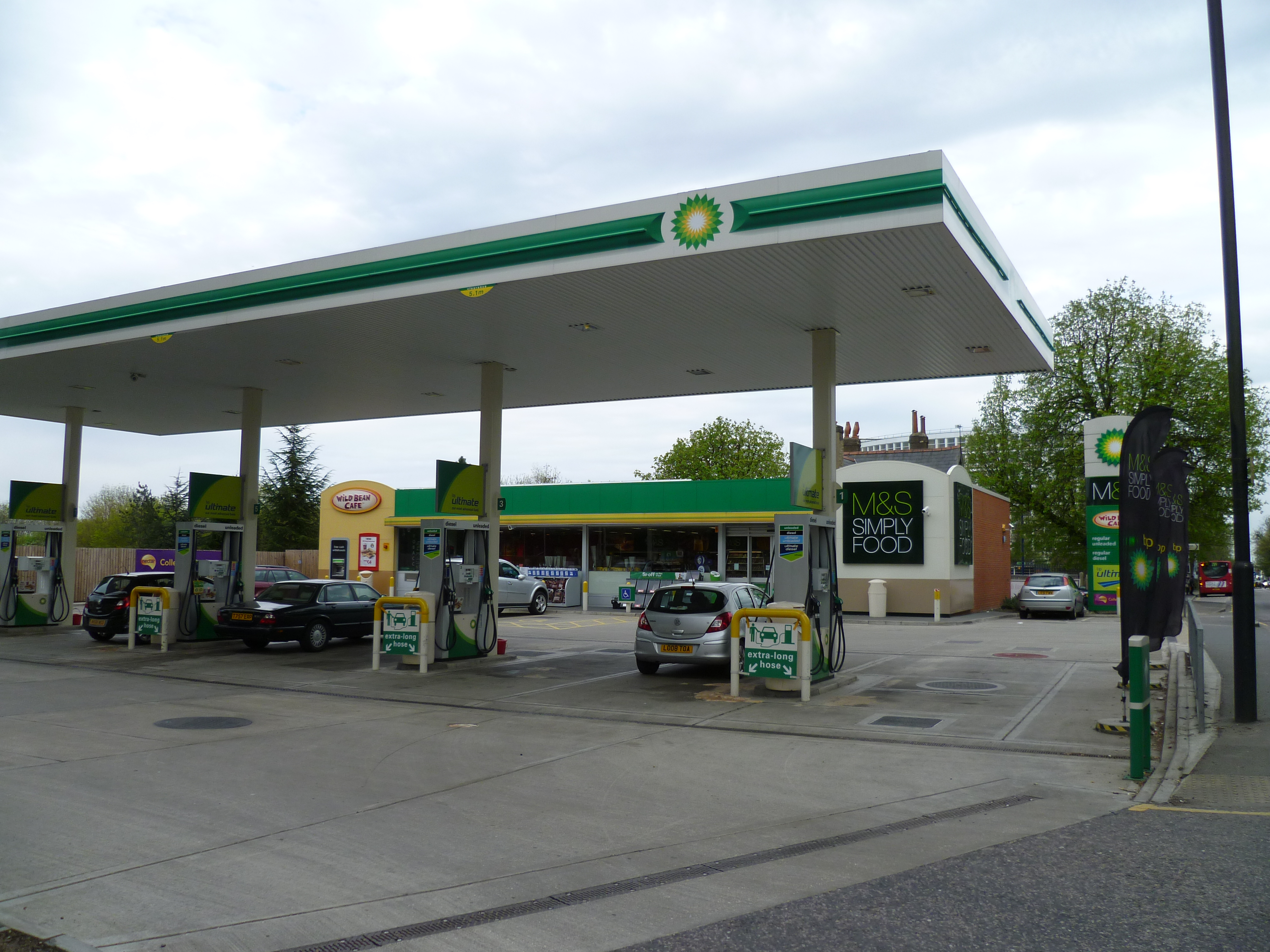 Cockfosters